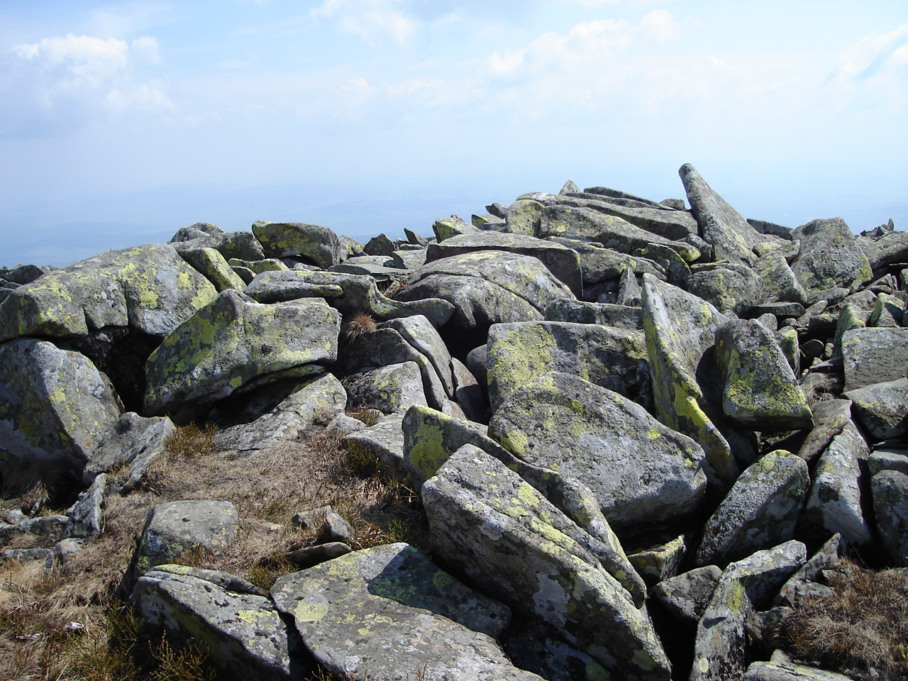 Stones on the mountain's ridge